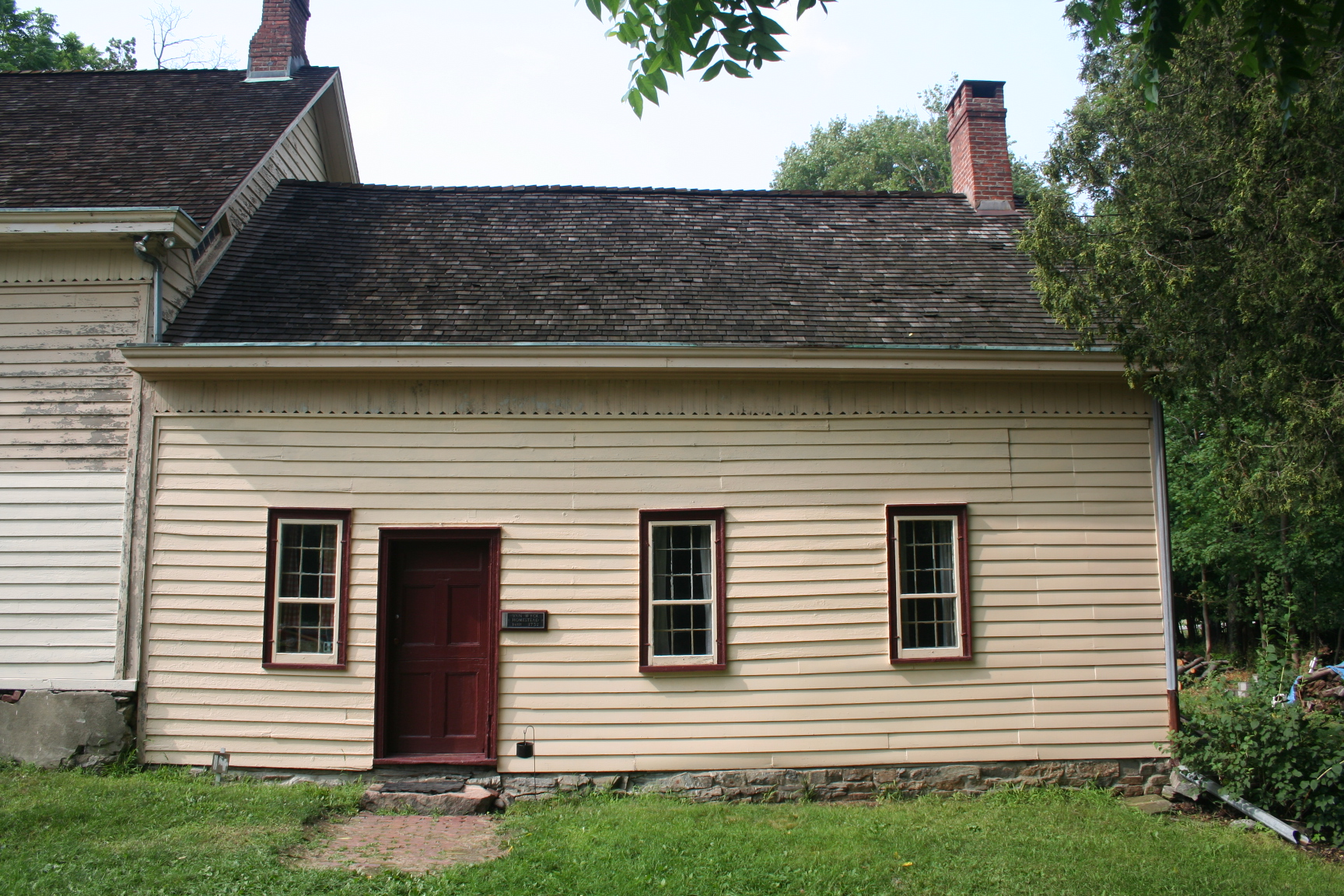 Photograph of the east wing (oldest portion of the house) of the Van Wyck Homestead in Fishkill, New York State, United States of America